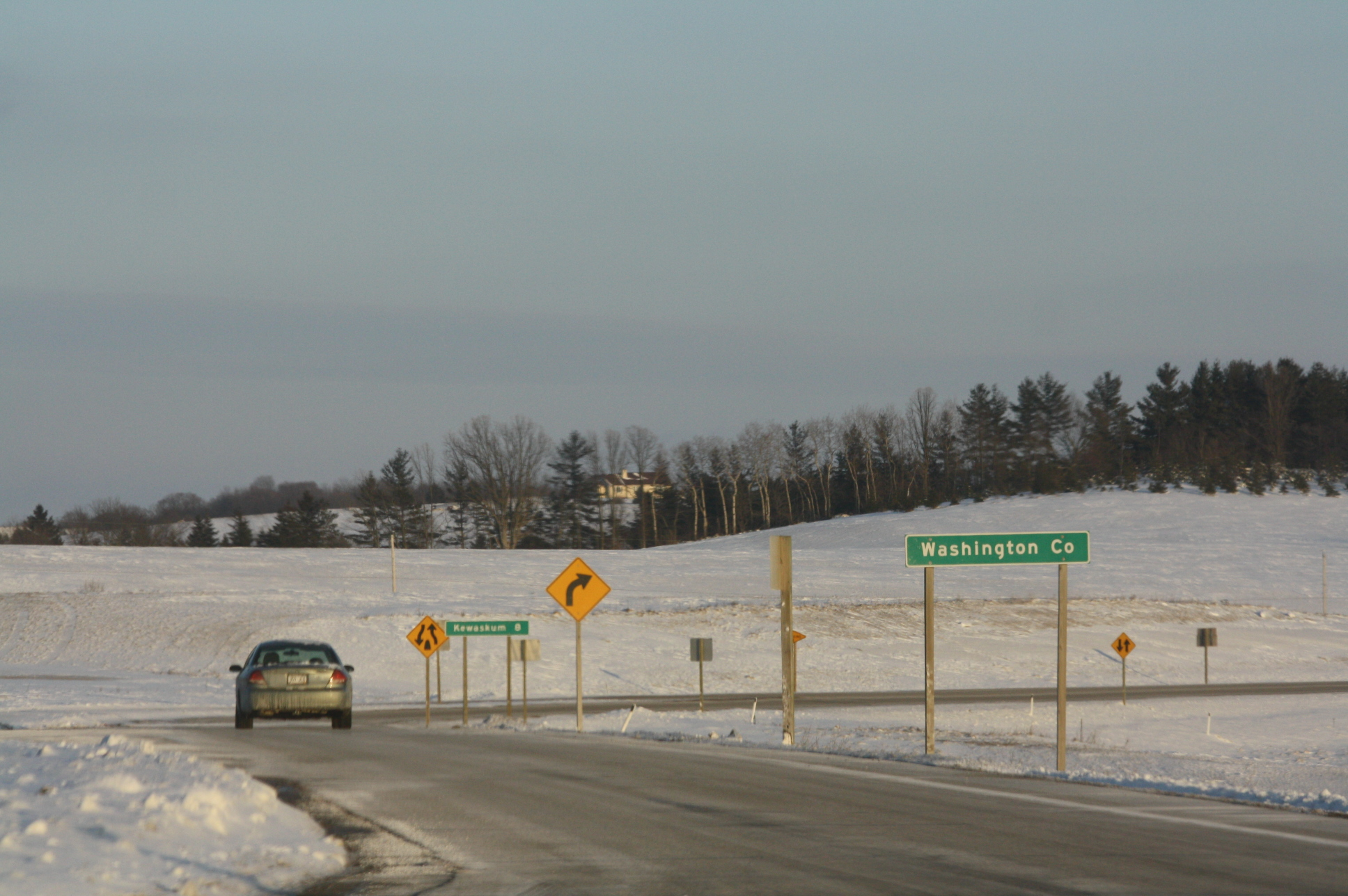 Looking east at the county welcome sign for Washington County, Wisconsin on Wisconsin Highway 28.